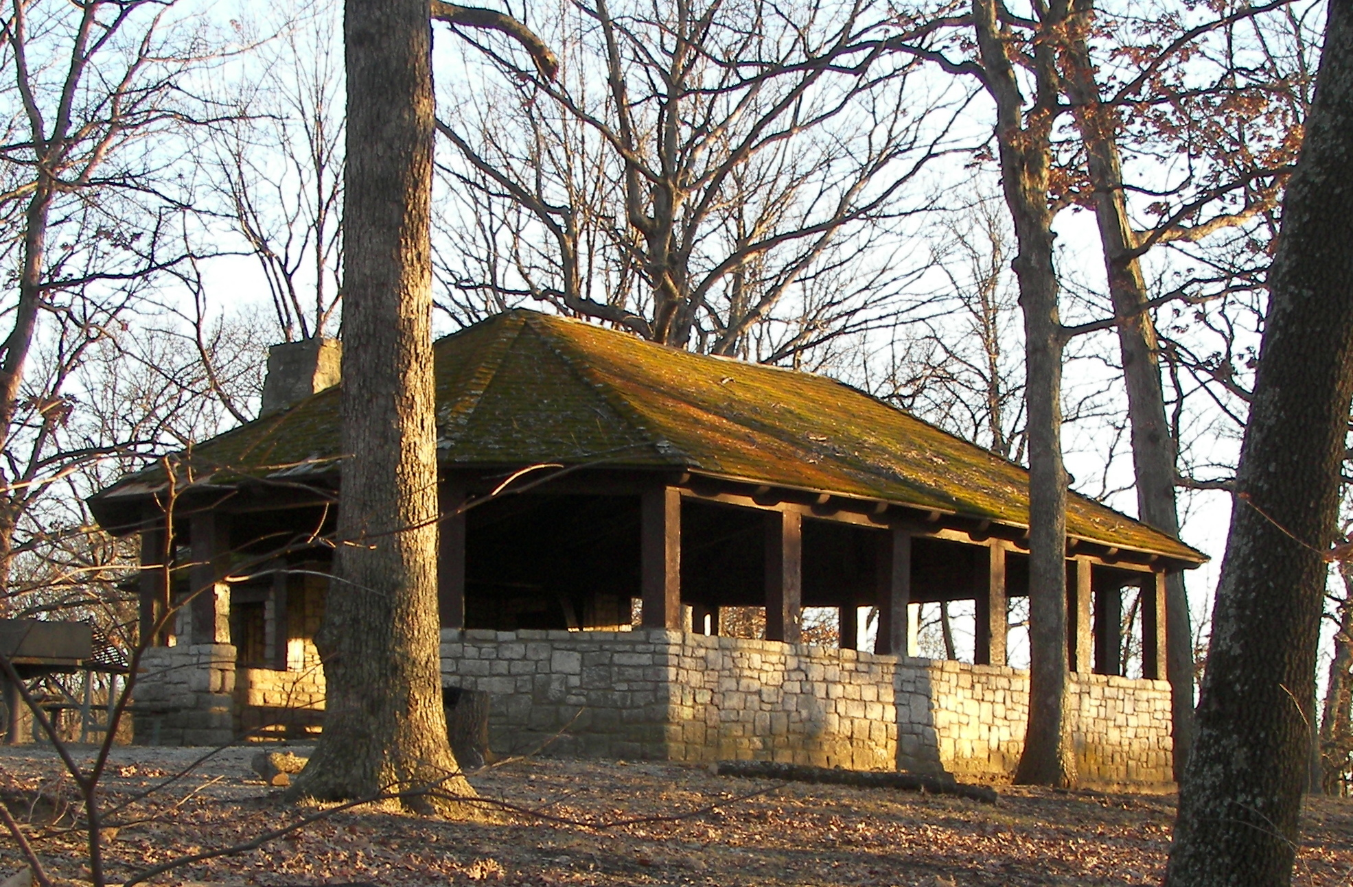 A picnic shelter at Babler State Park which was built by the Civilian Conservation Corps in the 1930s.